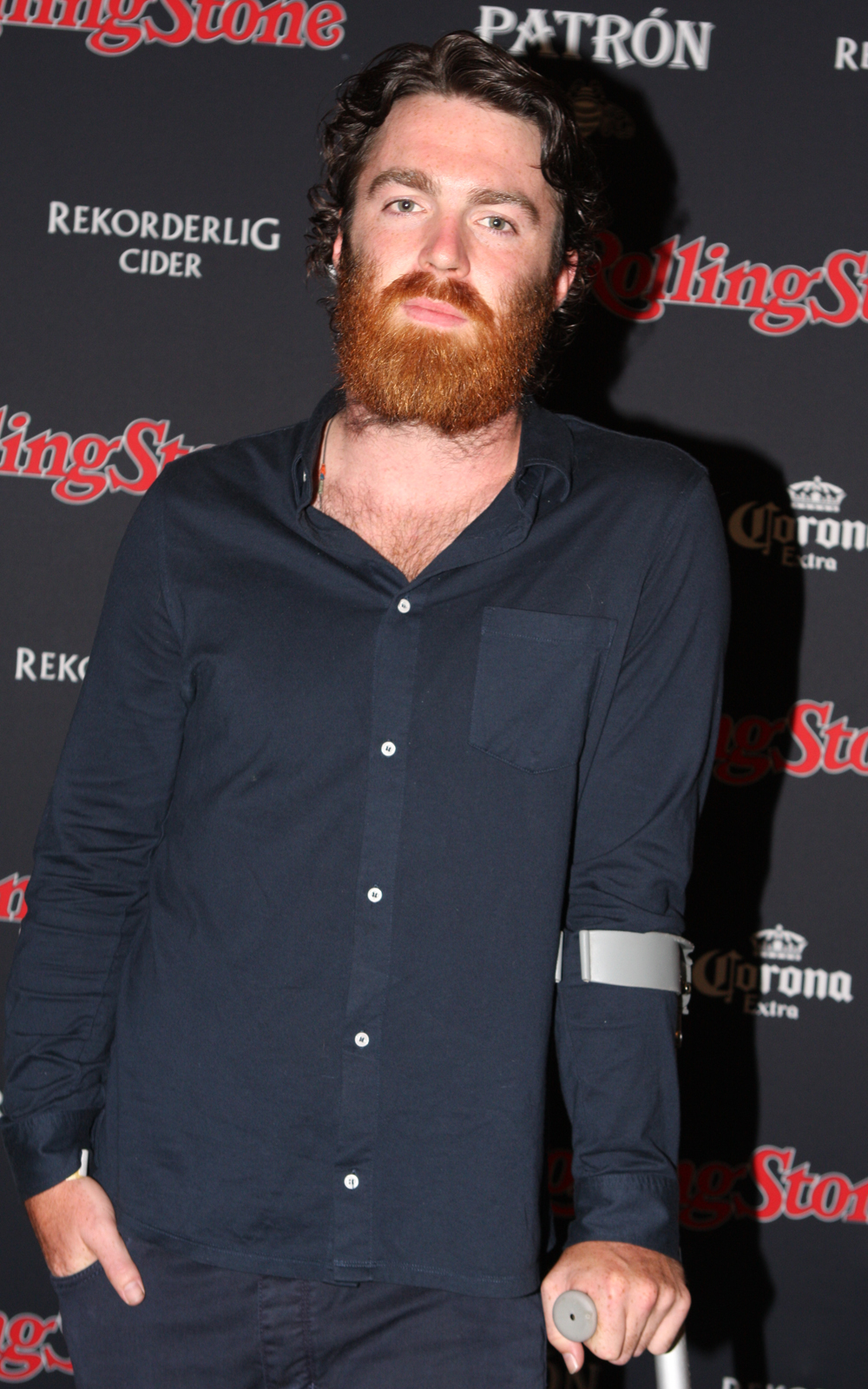 Australian electronic musician Chet Faker at the Rolling Stone Awards, Beach Road Hotel, Bondi Beach, Sydney, Australia. Taken Date: Wednesday, January 16, 2013